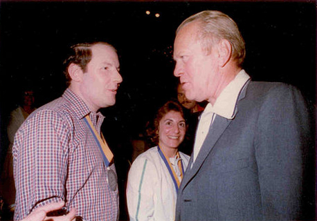 Jeffrey A. Legum in 1982 with President Gerald Ford